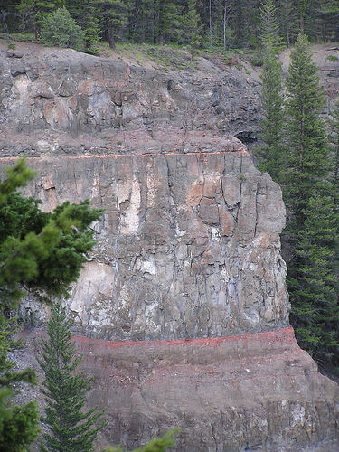 Close up view of the flood basalt lava layers in Chasm Provincial Park